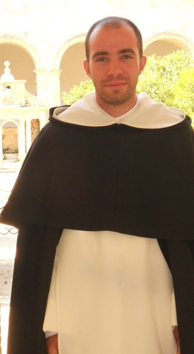 Bro.Aaron Zahra OP in his tonka.